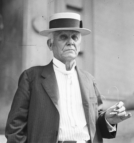 Asa G. Candler, Coca Cola king of Atlanta, Georgia